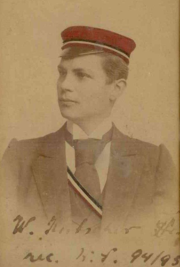 Photography of Wilhelm Kutscher